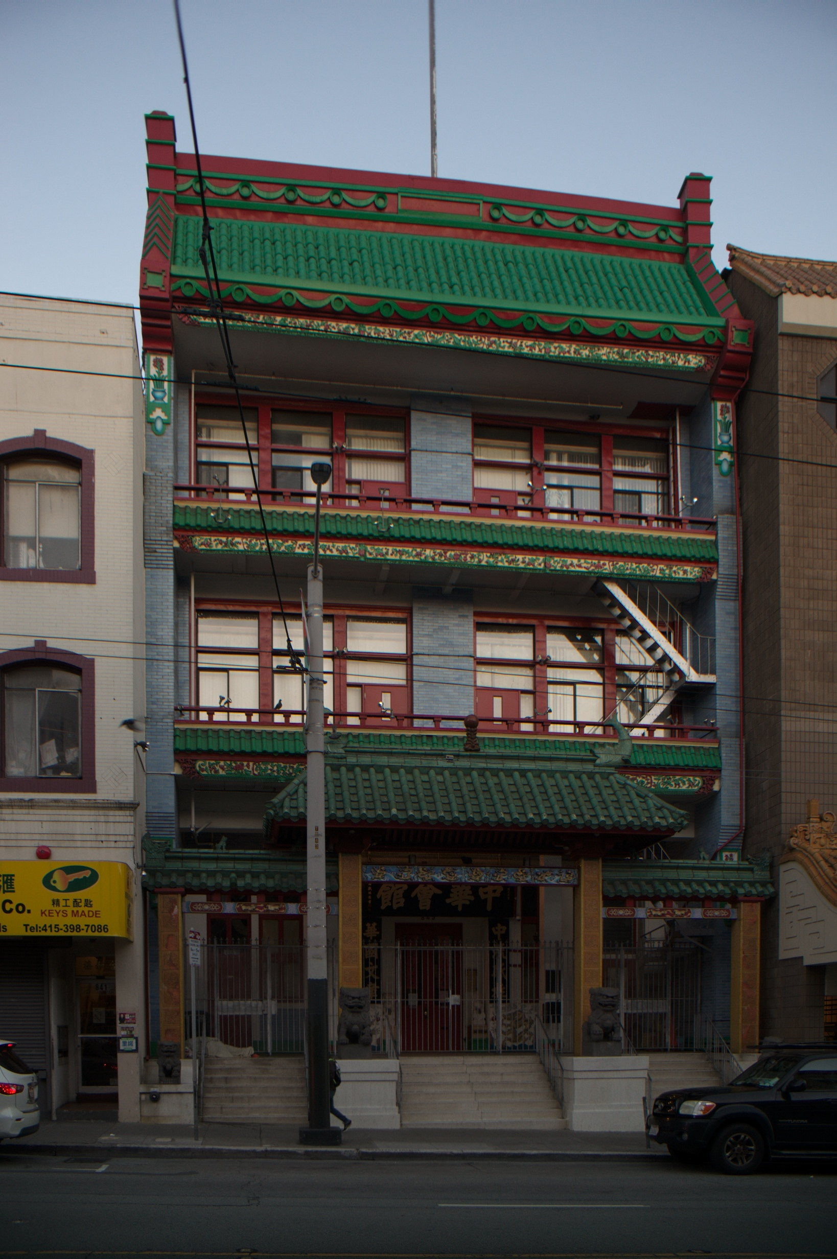 A different kind of painted lady?